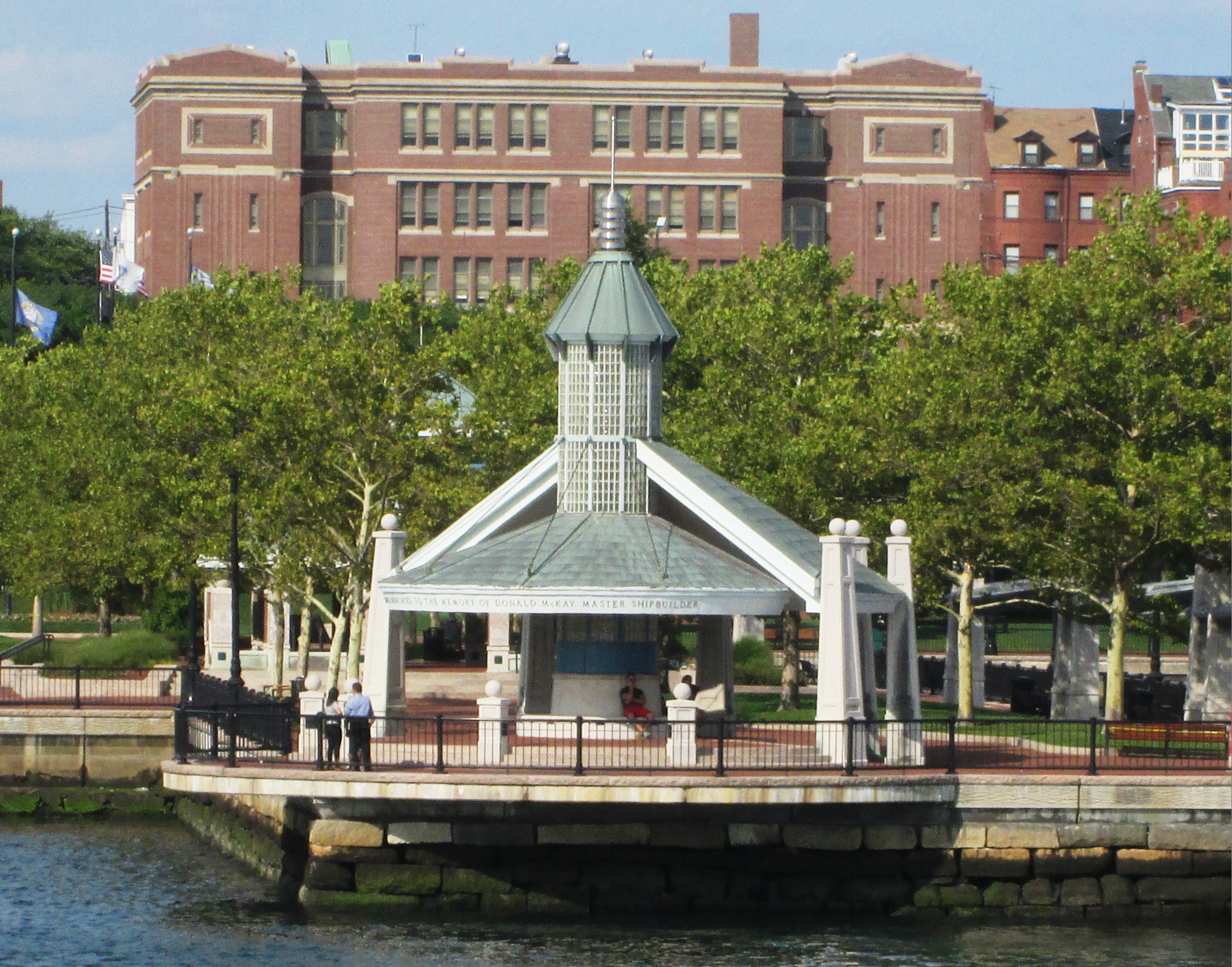 Donald McKay (1810 – 1880) designed and built some of the most successful clipper ships in history.The Piers Park Sailing Center is a non-profit community sailing organization located at 95 Marginal Street in the Jeffries Point neighborhood of East Boston, Massachusetts. Piers Park was constructed by the Massachusetts Port Authority in 1995 to allow residents access to the waterfront. It was designed by Pressley Associates Landscape Architects, incorporating historic seawalls dating from 1870, and the sailing center was constructed shortly thereafter, but its sailing programs did not begin until 1997. The sailing center utilizes Boston Harbor and offers programs for a variety of ages and skill levels. The center retains the property through an extended $1 lease from MassPort, who also donated the sailing center's fleet of ten 23-foot Sonar keelboats.Adams Elementary School is located at 165 Webster Street at the corner of Brigham Street in East Boston.